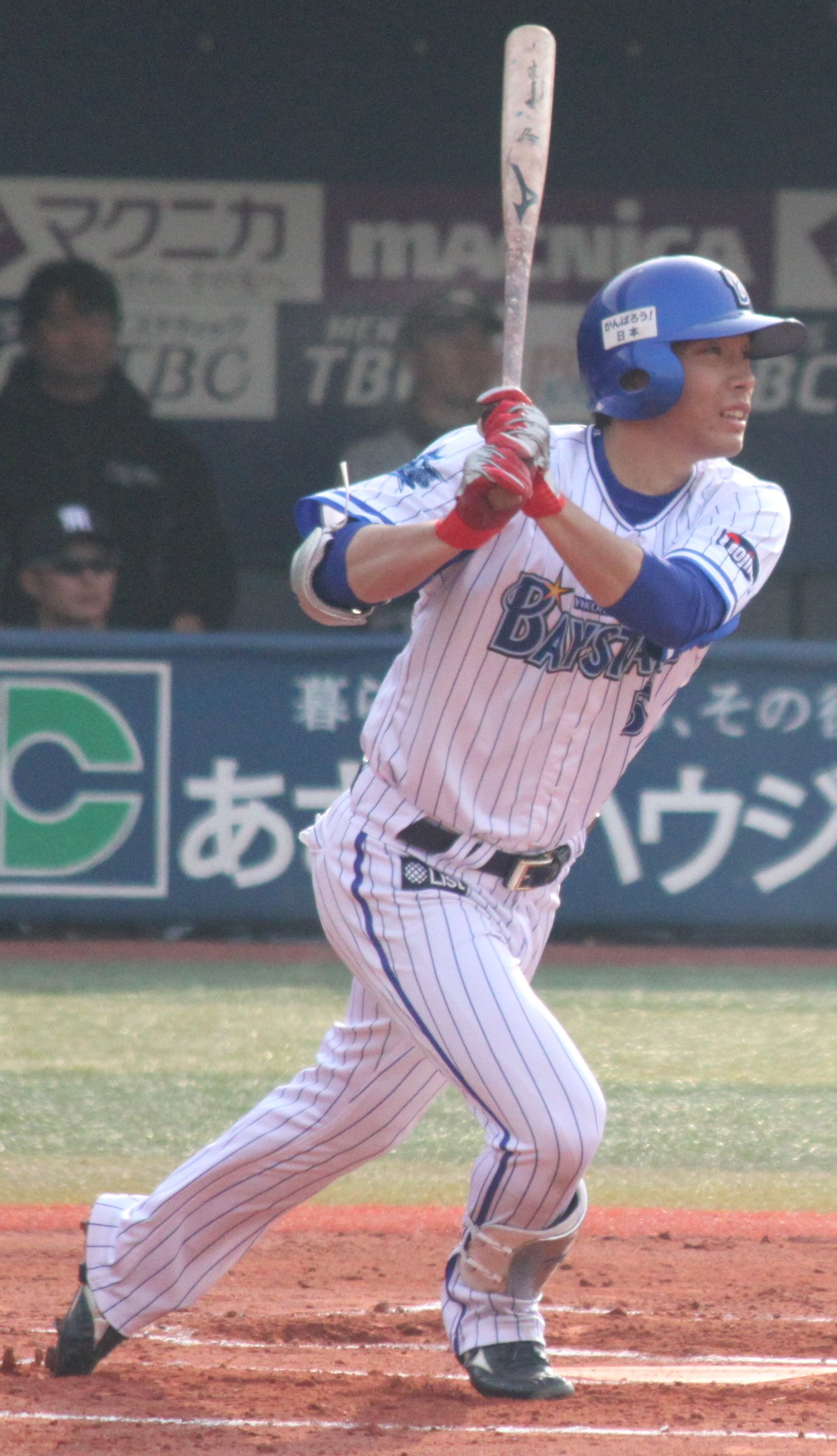 Toshihiko Kuramoto, infielder of the Yokohama DeNA BayStars, at Yokohama Stadium.